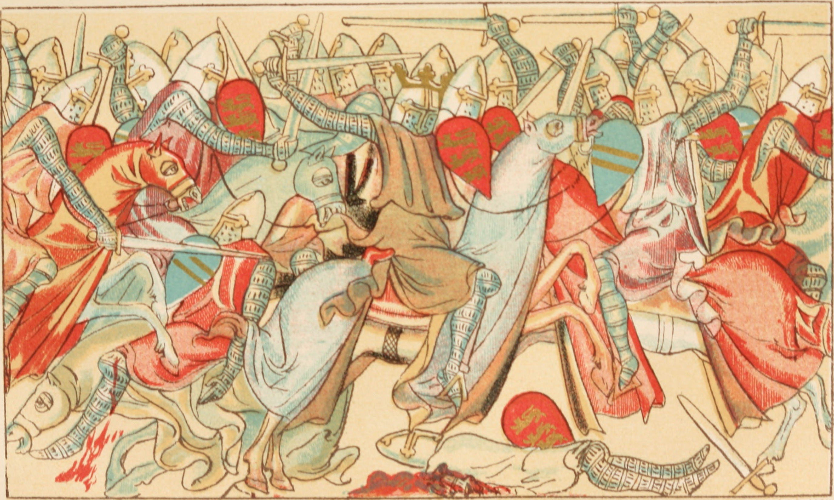 Title: Belt and spur : stories of the knights of the middle ages from the old chronicles Year: 1884 (1880s) Authors: Seeley, E. L. (Emma Louisa) Subjects: Middle Ages -- History Chivalry Publisher: New York : Scribner and Welford Text Appearing Before Image: * how peace shouldbe maintained between them. But while they werein conference, there came messengers in great hasteto the King Richard, saWng that the people had at-tacked and were slaying his men. Then the King,mounting his horse in haste, rode out to stop thequarrel; but when he reached the place, the Lom-bards, mad with rage, railed upon him with loudcries. Then he drew his sword and attacked them. Text Appearing After Image: RICHARD CCT UR DE LION. 57 and though he had but twenty men with him, theyfled before him hke sheep before the wolf and raninto their city and shut the gates. Some of themwent to King PhiHp, and prayed him to come totheir aid ; and there are those who say he avowedhimself more ready to help them than to fight forthe King of Englands men, to whom he was boundby oath. Then King Richard, when he saw the gates shutagainst him, made a fierce assault upon the cit), andthey defended themselves with stones and dartsfrom the walls, so that many of our men were slain.)^ut the King, observing a postern neglected bythe citizens, ordered an attack to be made uponit ; and the gate was broken down, and thus thewhole army entered the city. Great spoil fell intothe hands of the victors, and many of the citizenswere slain, but King Richard stopped the slaughter.Then when King Philip saw the standard of the KingRichard on the walls of the city, he was moved withenvy, and hated Richard in his heart. And